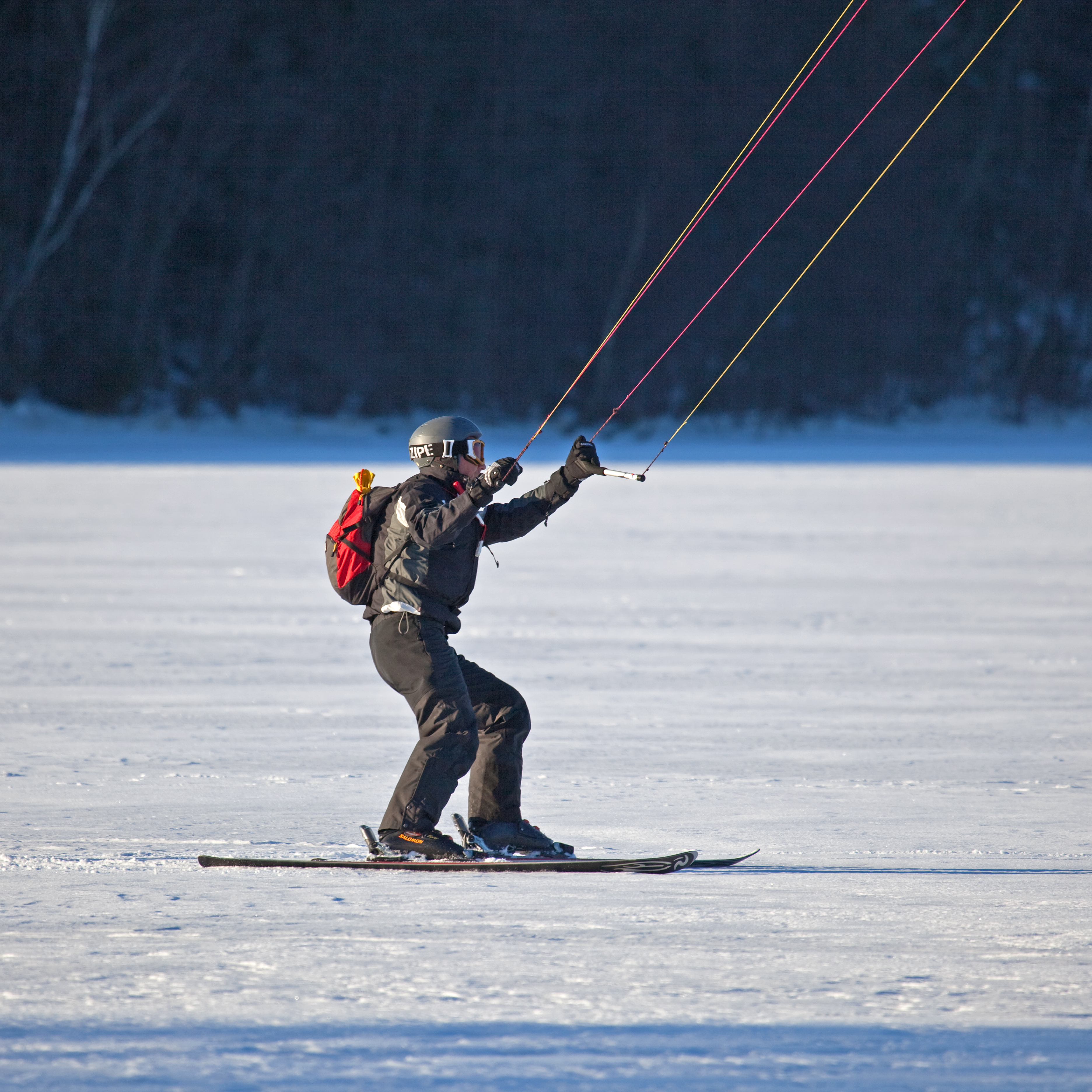 Kite skiing on ice 29 January 2011 in Broknas, Vaxholm, Stockholm, Sweden